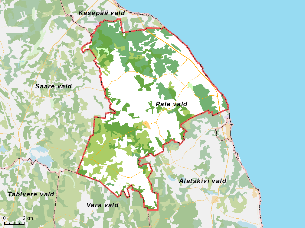 Map of municipality in Estonia